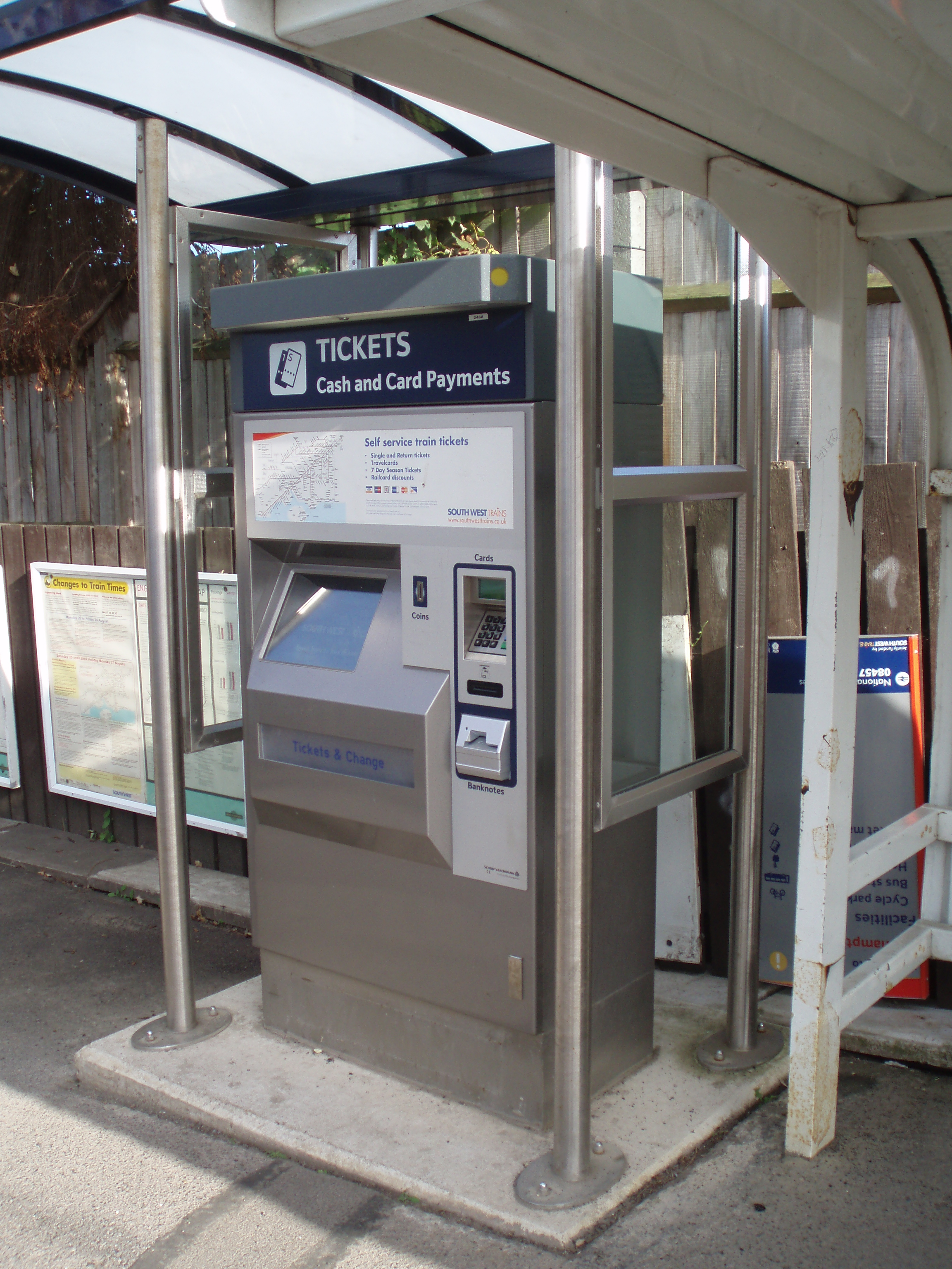 Photo taken 27th August 2007